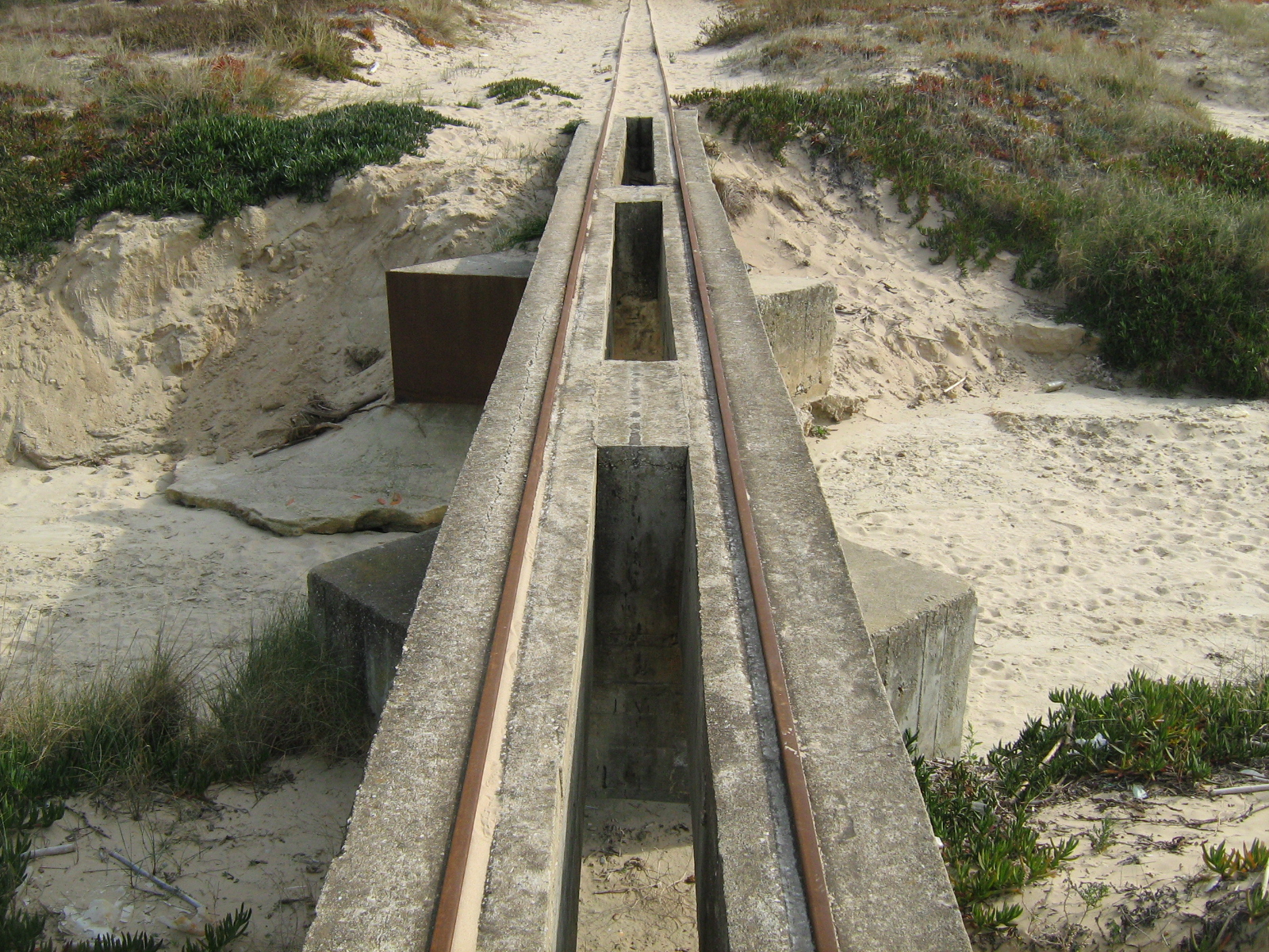 Small bridge with a Decauville track, Transpraia train in Costa da Caparica, Portugal